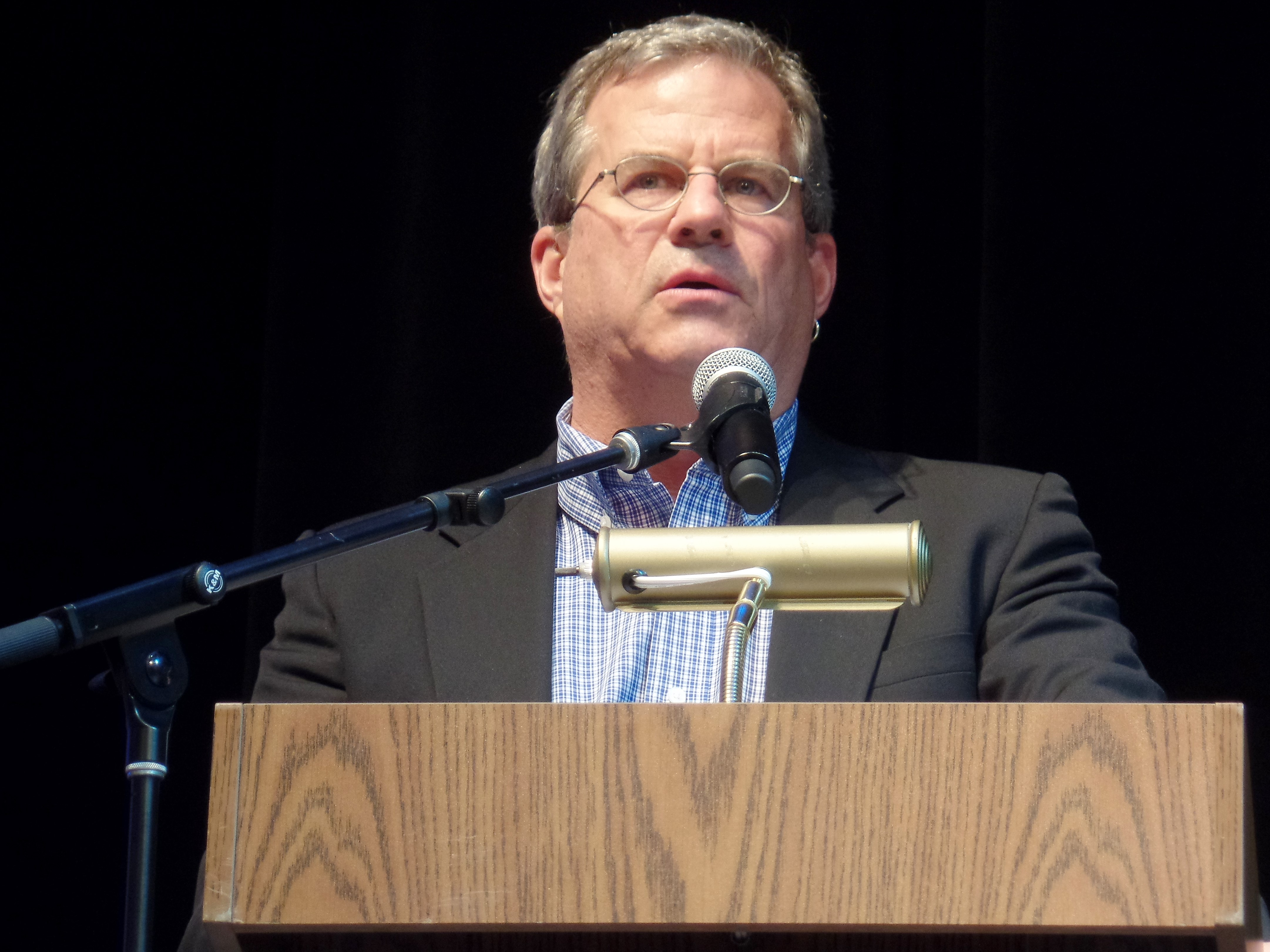 Author Sam Quinones, who wrote “Dreamland: The True Tale of America’s Opiate Epidemic,” told a Delaware audience Oct. 27 that an influx of prescribed opiate painkillers, Americans believing they were “entitled to a life without pain,” a flood of cheap heroin from Mexico and the breakdown of community all contributed to the nightmare of the addiction epidemic. Quinones was brought to Delaware by First Lady Carla Markell and atTAcK addiction, a grassroots group of parents and other individuals who have been impacted by the epidemic. In introducing Quinones, the First Lady said “Dreamland” was a “riveting read.”